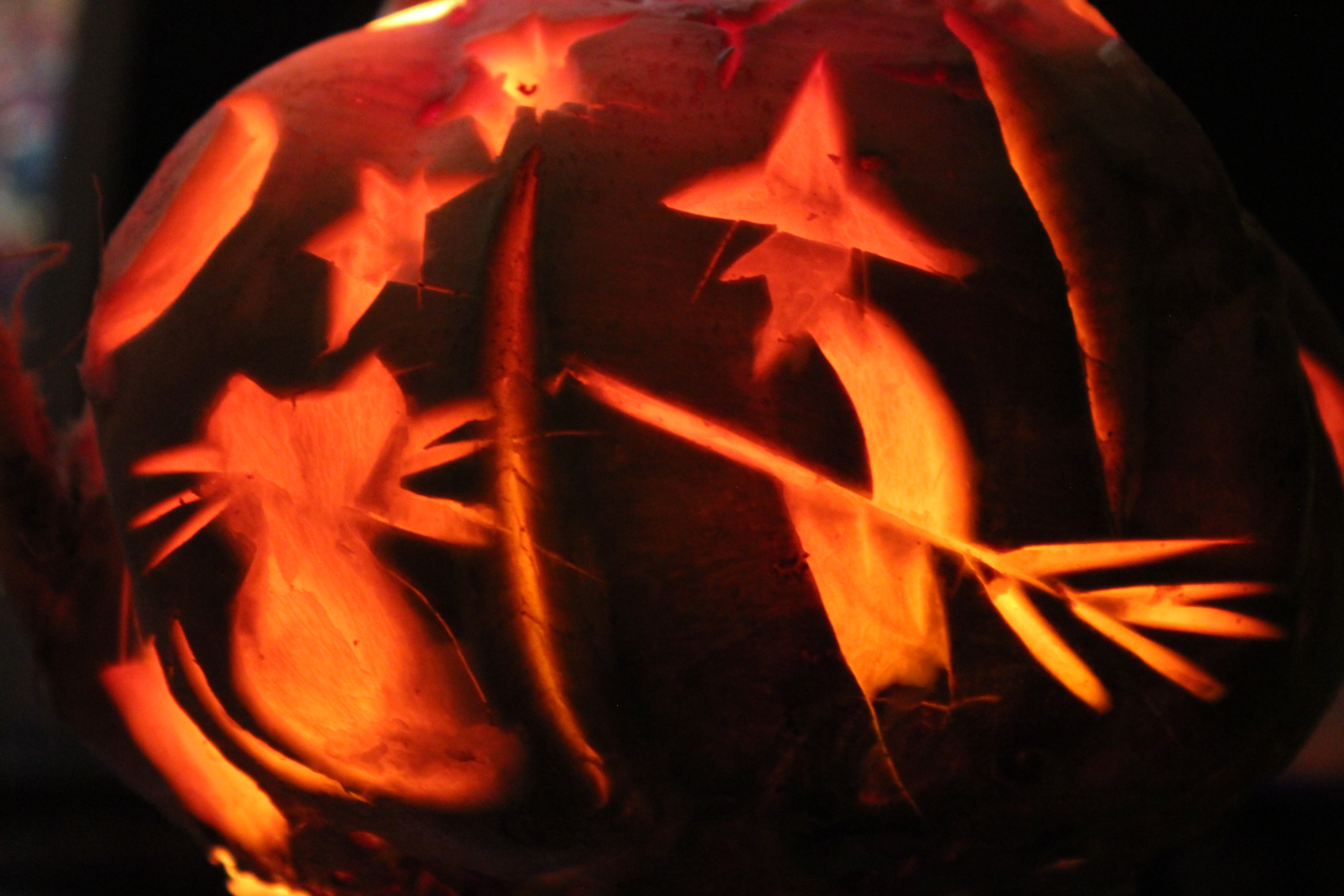 A detail from a turnip carved for hop-tu-naa, showing a witch and a cat